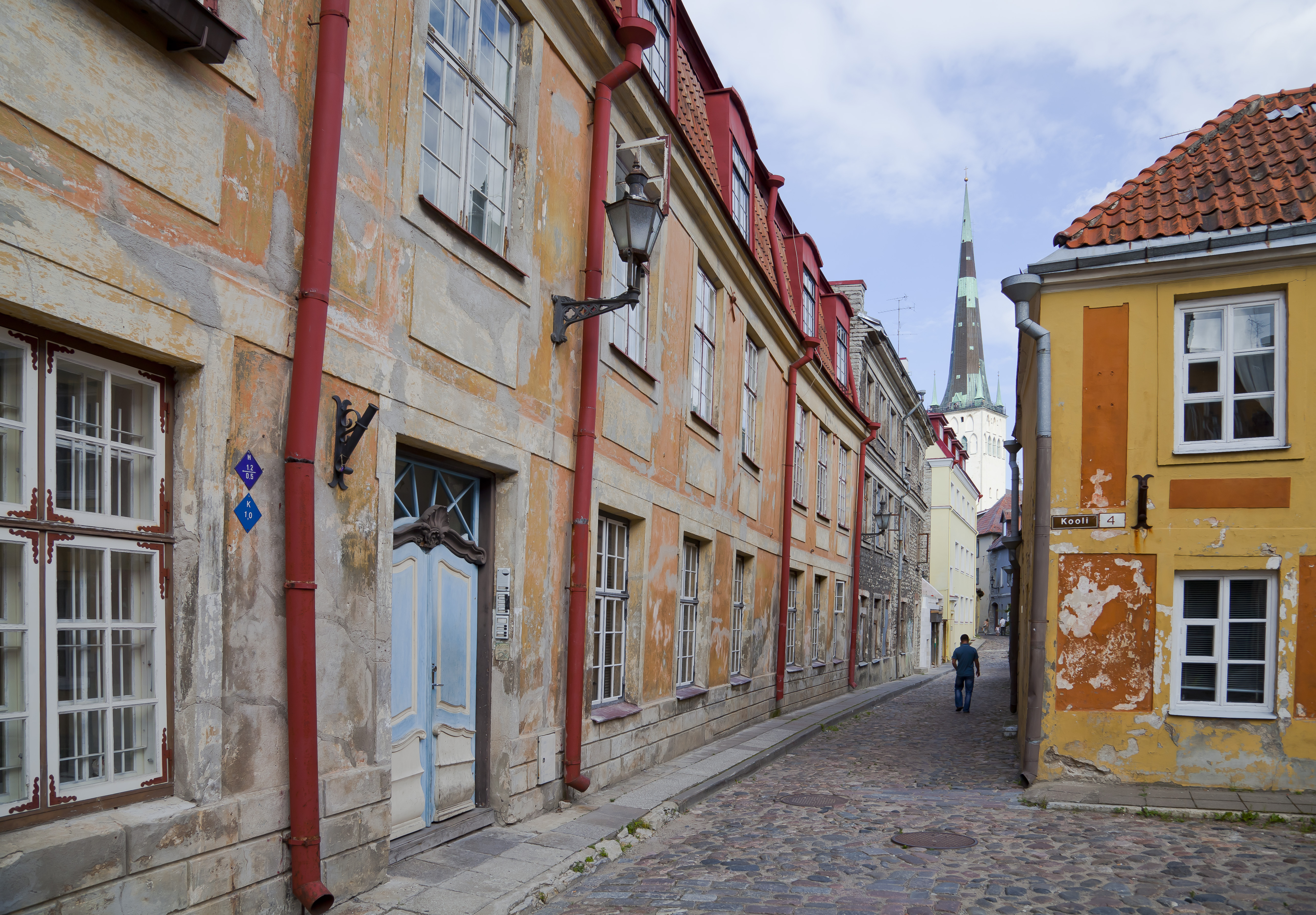 Kooli Street, Tallinn, Estonia